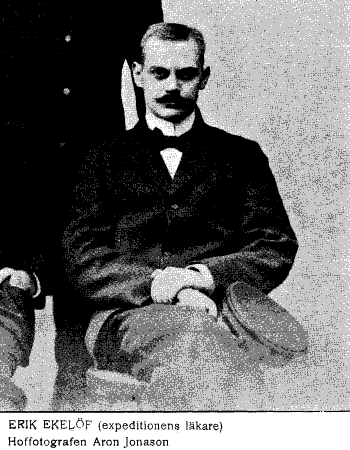 Erik Ekelöf, 1875-1936, Swedish physician and polar explorer